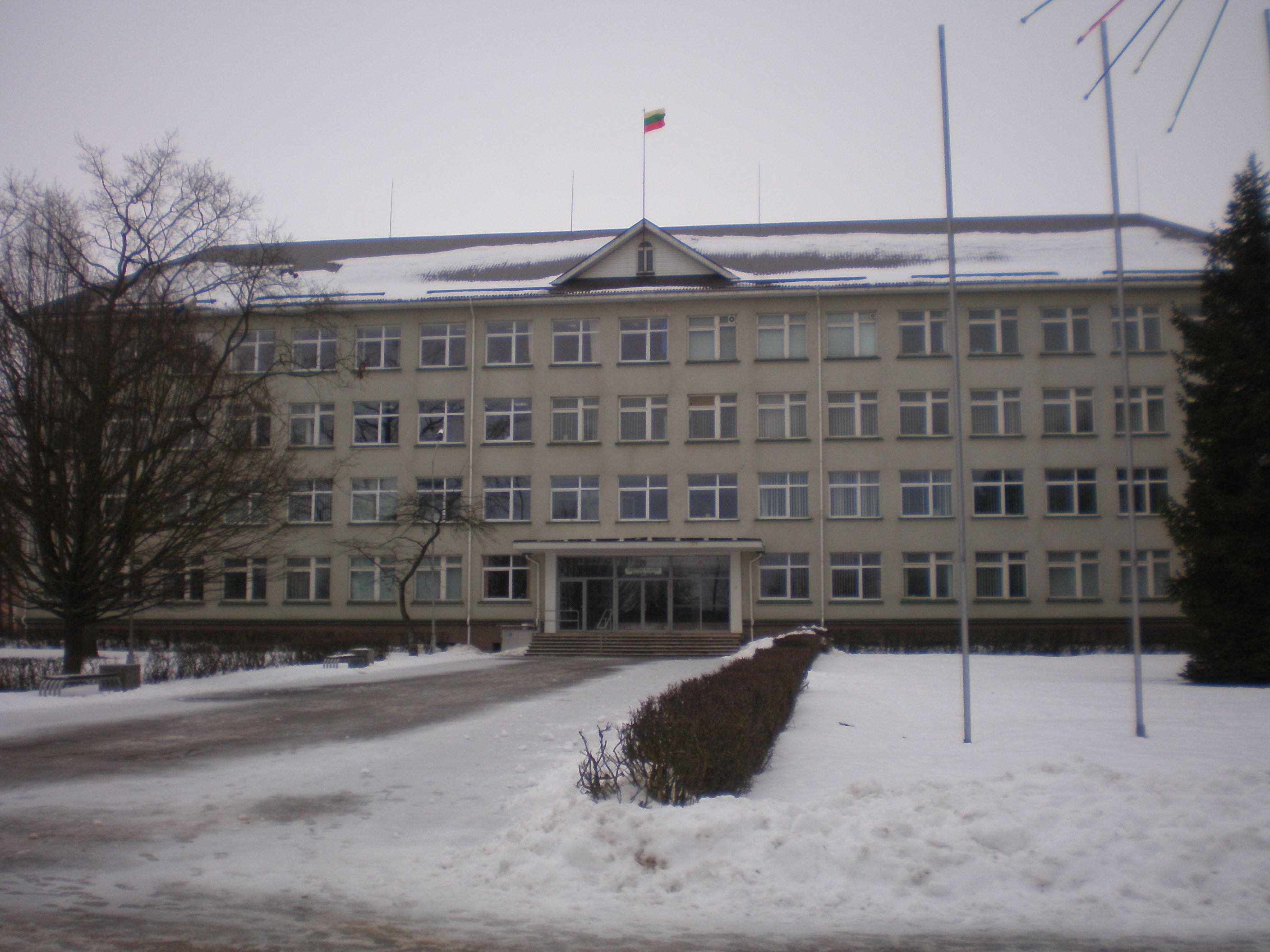 Sirvintos district municipality